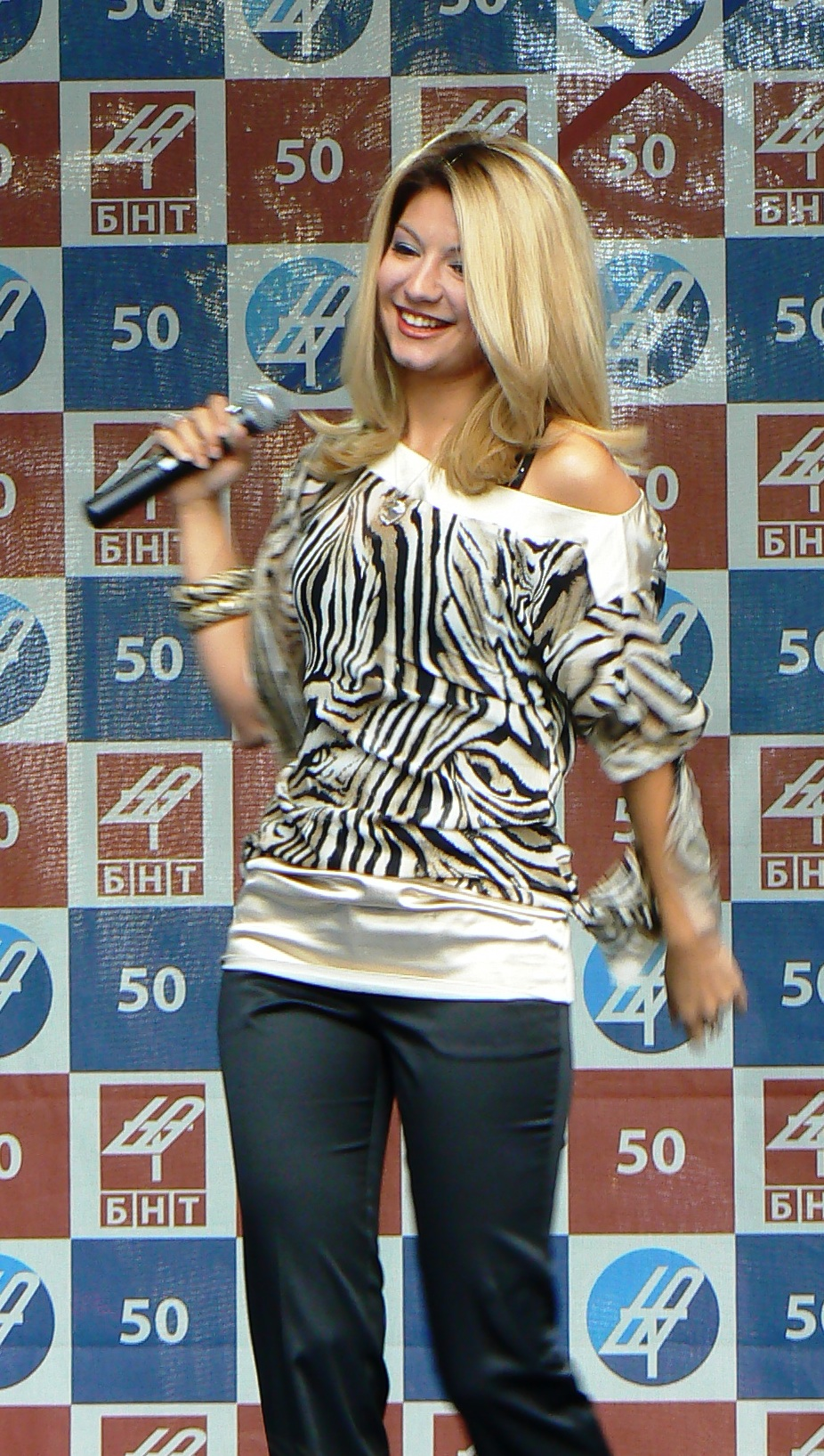 Bulgarian singer Joanna Dragneva from Deep Zone Project